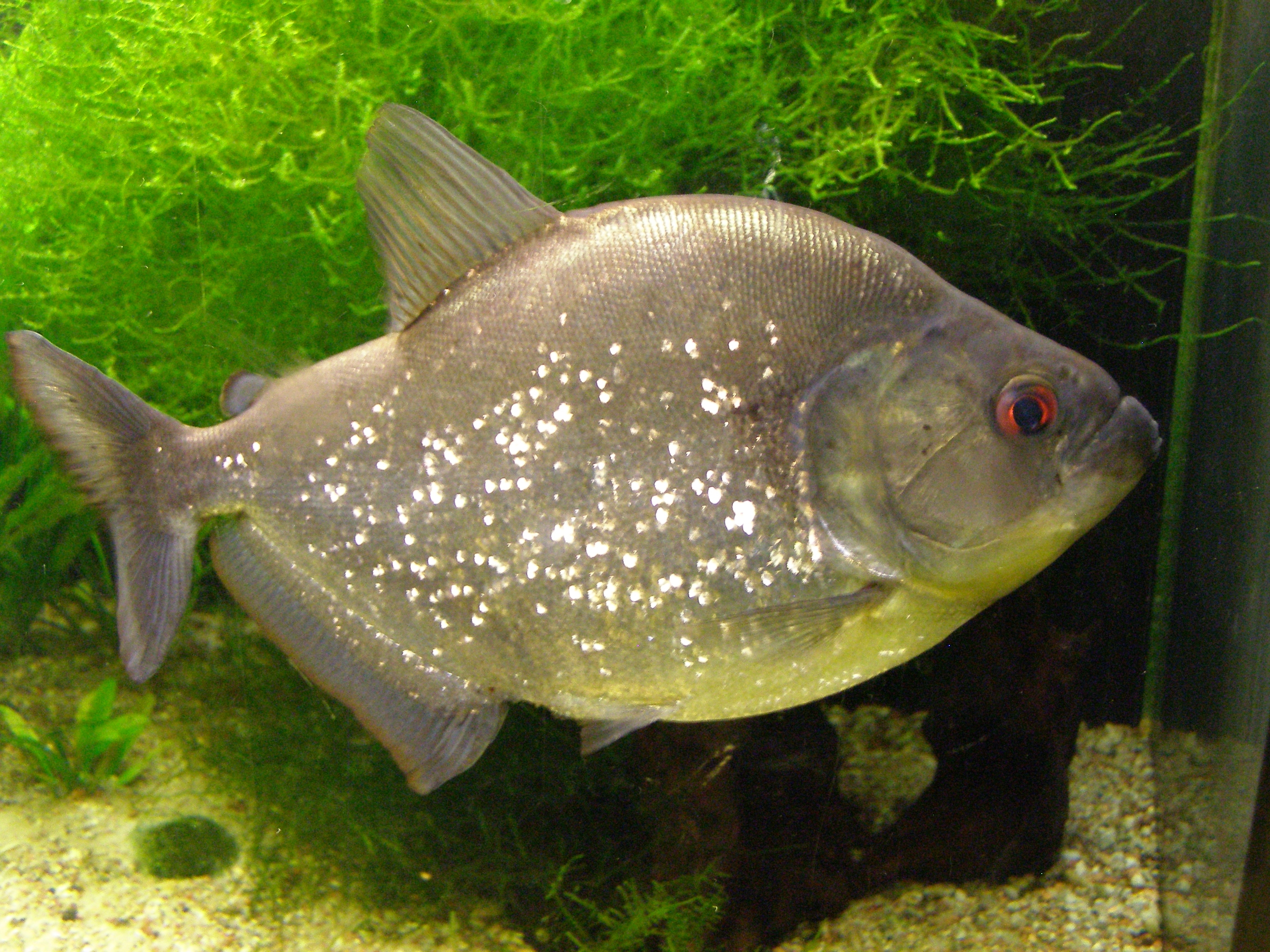 Wrocław - Zoological Garden - redeye piranha (Pygocentrus rhombeus)